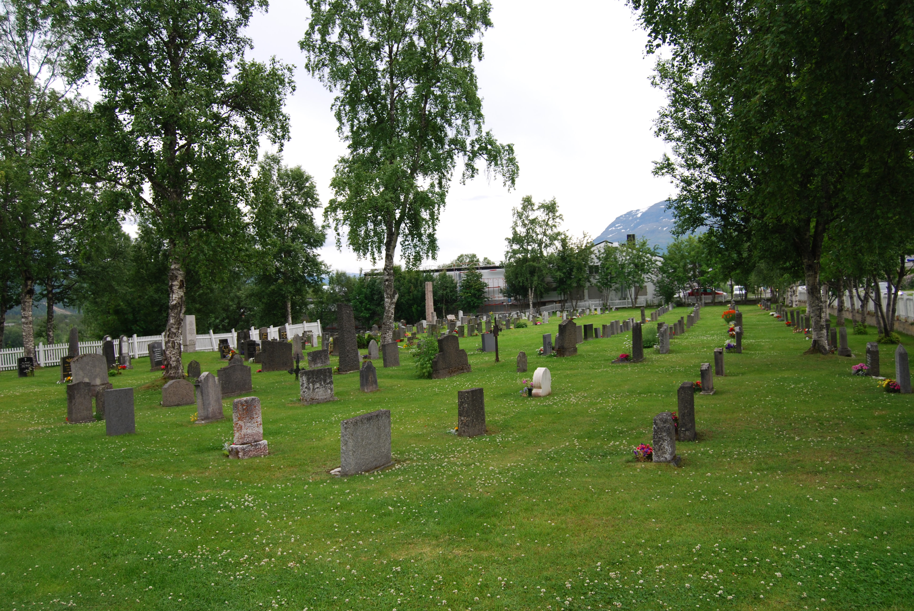 Bardu church, Bardu municipitaly, Norway.